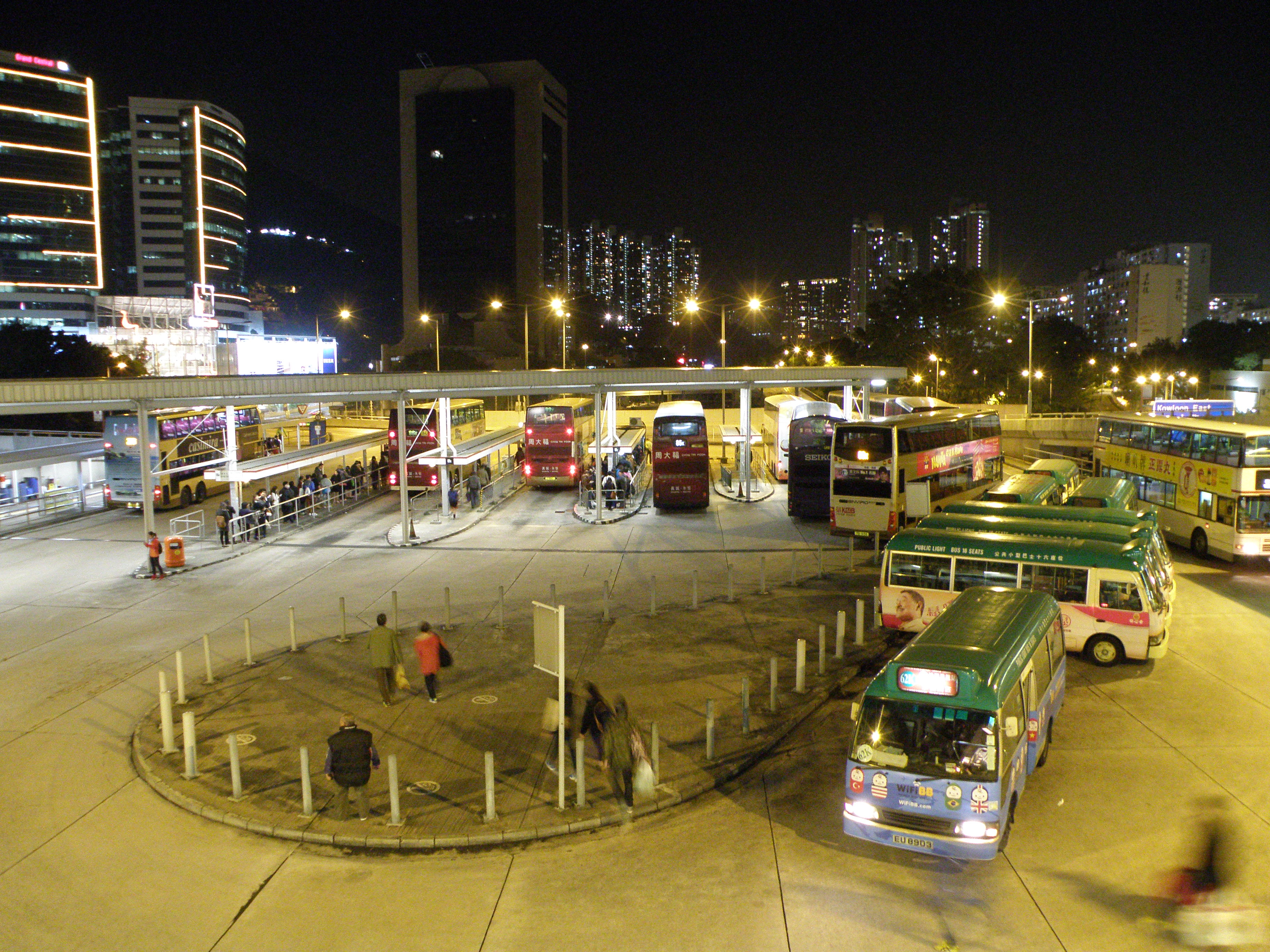 Sha Tin Station Public Transport Interchange in Shatin, Hong Kong.